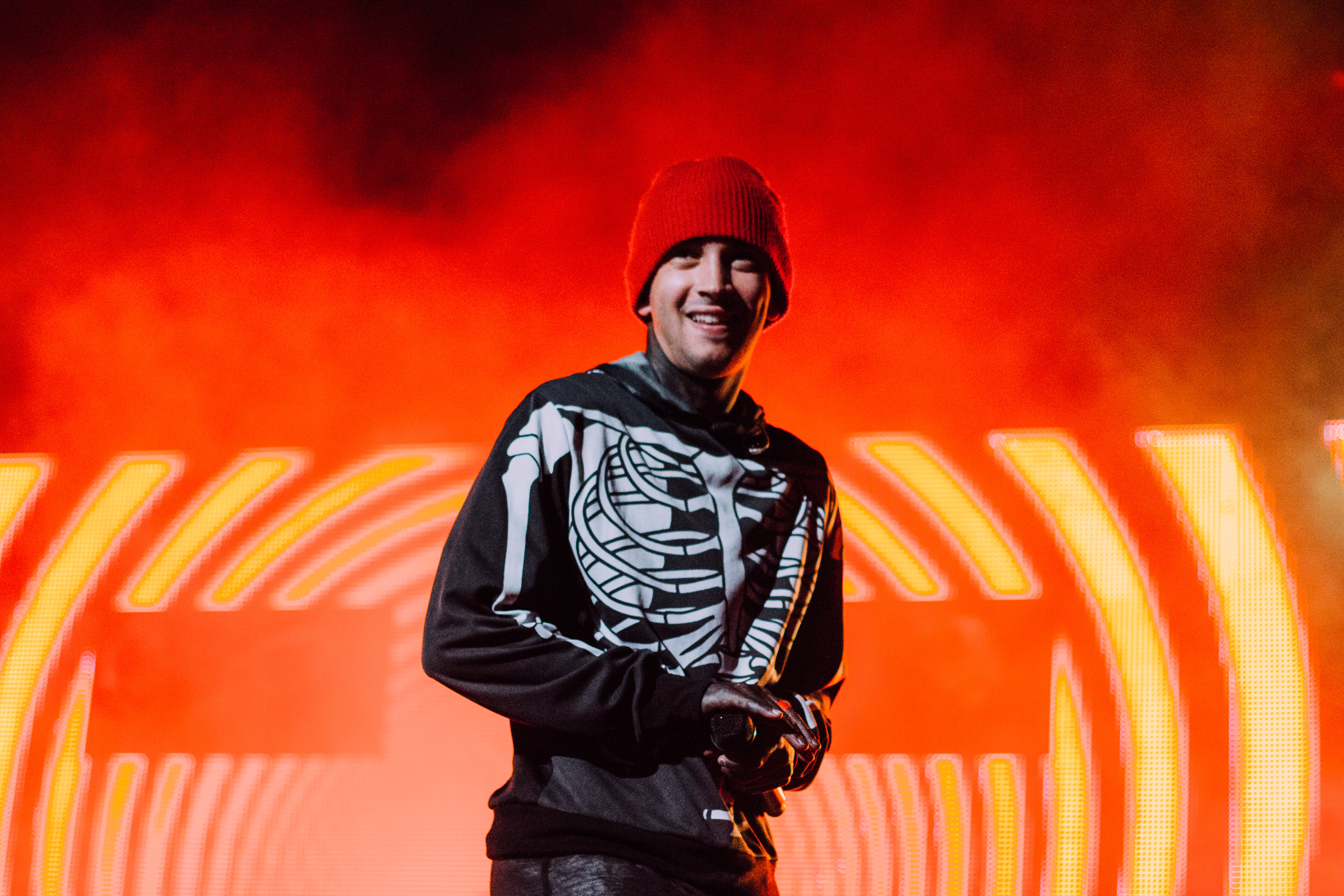 Tyler Joseph of Twenty One Pilots performing at City Park on October 31, 2014 in New Orleans, Louisiana on the Quiet Is Violent Tour.